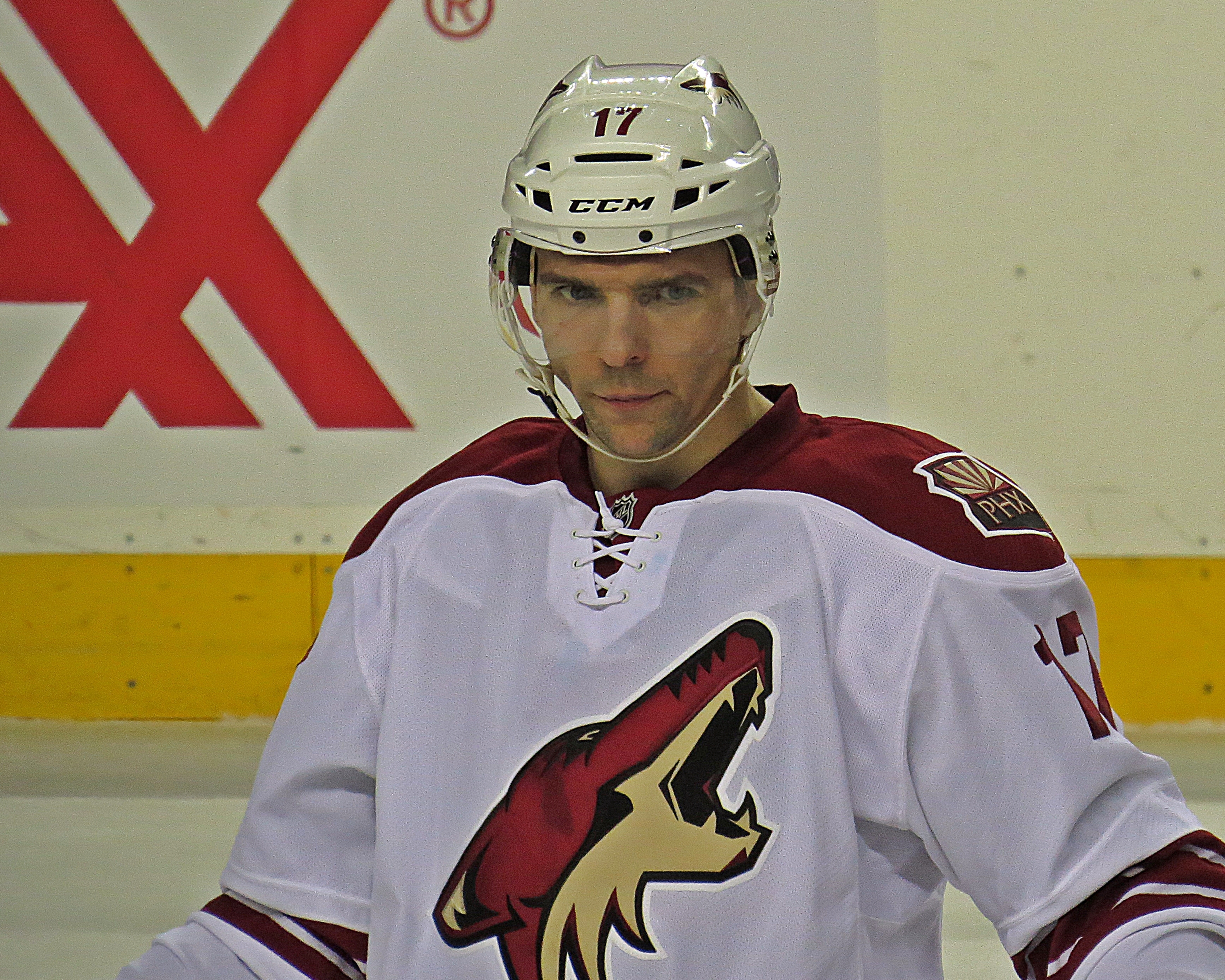 Vrbata with the Coyotes during the 2013-14 season.